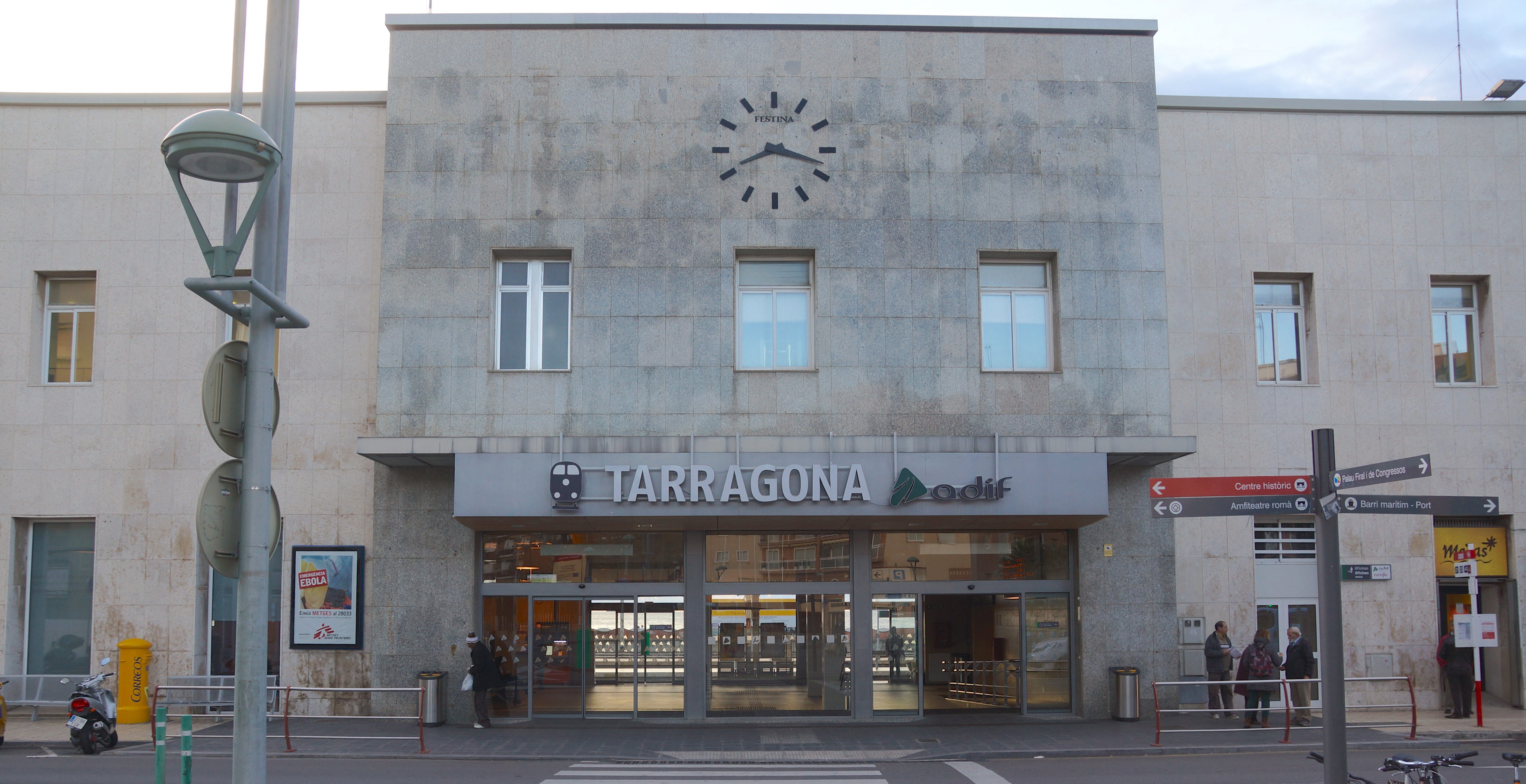 Tarragona, Catalonia: Tarragona train station, main entrance to the north-west